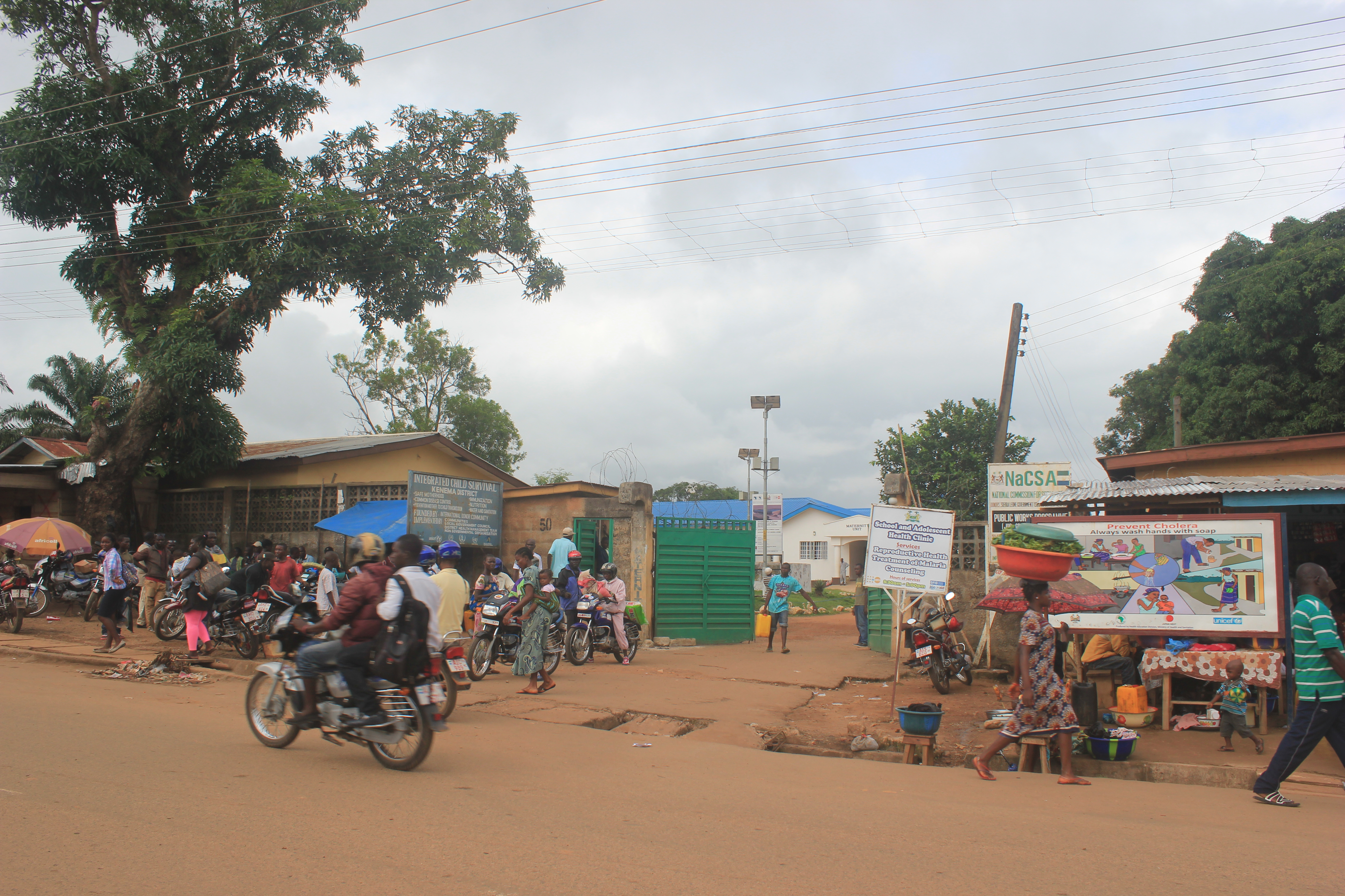 This is the hospital in Kenema, Sierra Leone, West Africa, where the Ebola virus samples are tested to see if someone has the virus or not. It was taken in June 2014.